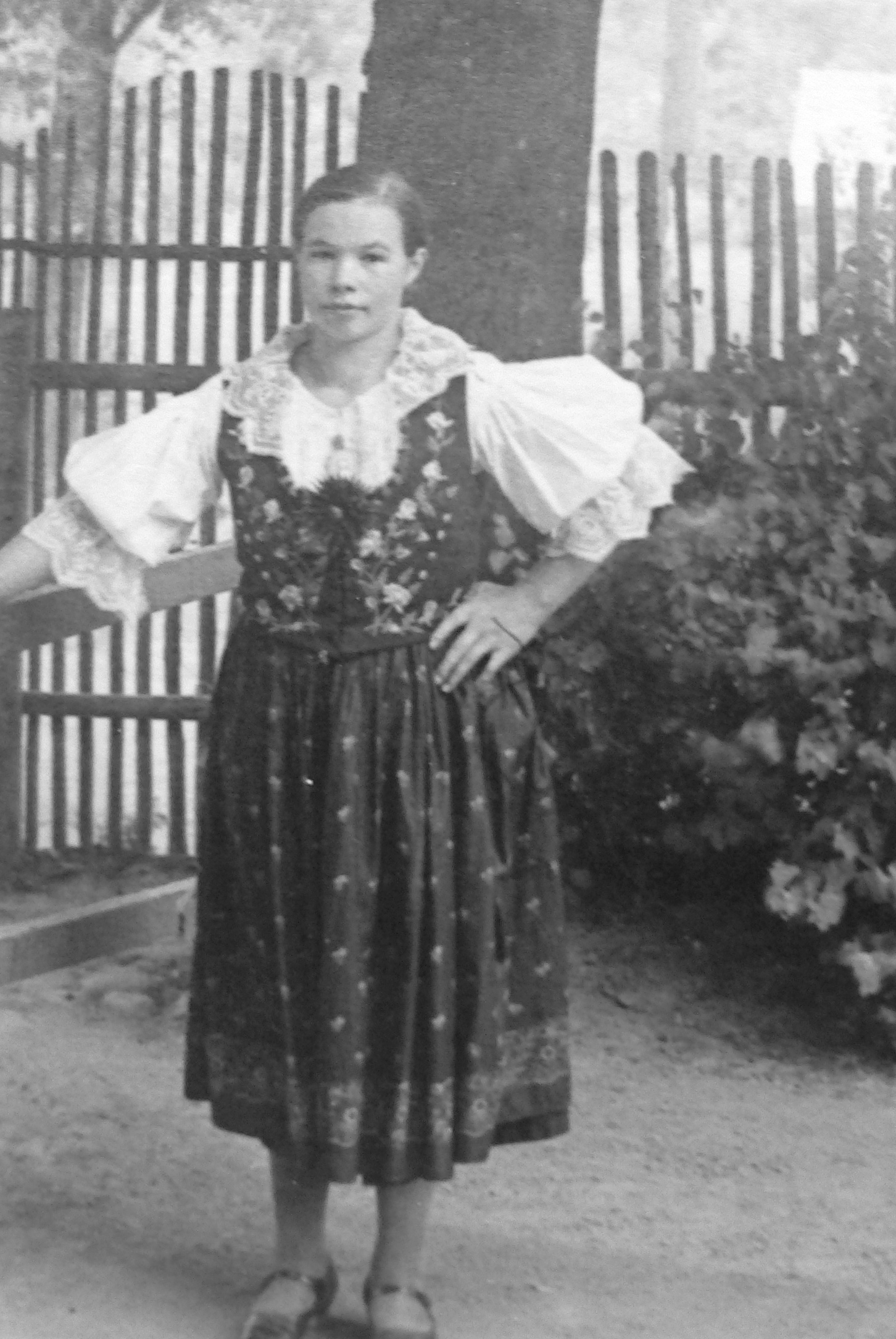 Folk costume of silesian region of Hlucin